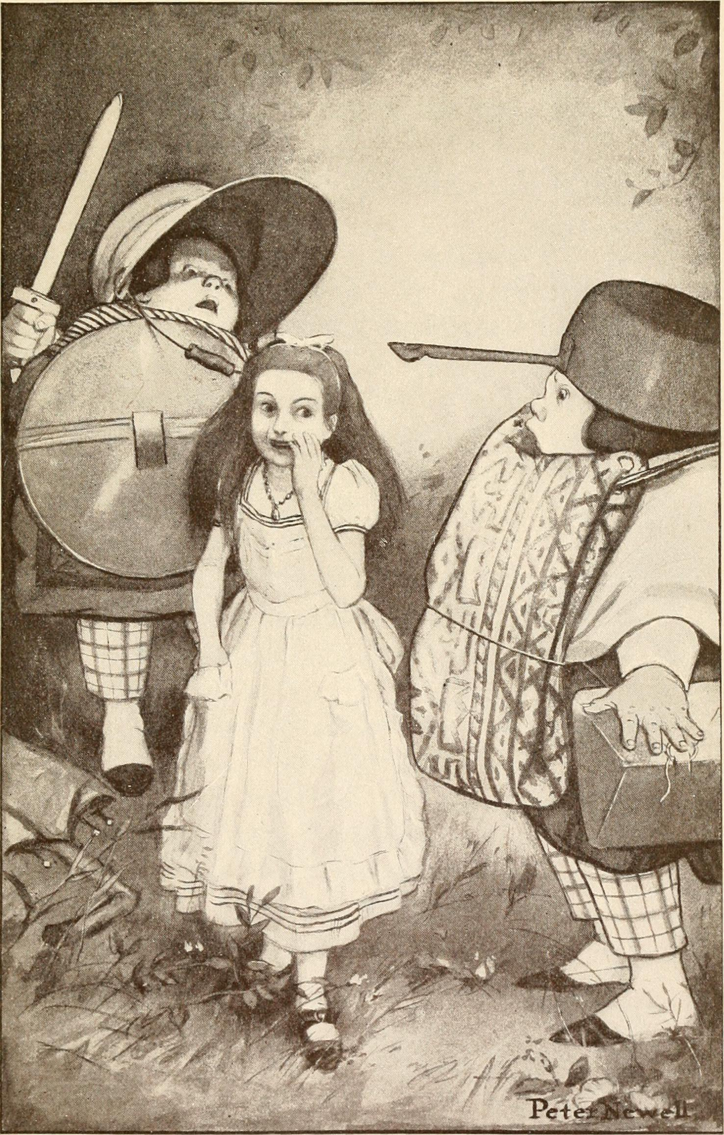 Title: Through the looking glass and what Alice found there Year: 1902 (1900s) Authors: Carroll, Lewis, 1832-1898 Newell, Peter, 1862-1924, ill Subjects: Fantasy Publisher: New York and London : Harper & Bros. Text Appearing Before Image: THROUGH THE LOOKING-GLASS Alice said afterwards she had neverseen such a fuss made about anythingin all her life—the way those two bus-tled about—and the quantity of thingsthey put on—and the trouble they gaveher in tying strings and fasteningbuttons—Really, theyll be more likebundles of old clothes than anythingelse by the time theyre ready! shesaid to herself, as she arranged a bol-ster round the neck of Tweedledee,to keep his head from being cut off,as he said. You know, he added, very grave-ly, its one of the most serious thingsthat can possibly happen to one ina battle — to get ones head cut *—* off. Alice laughed loud; but she man-aged to turn it into a cough, for fearof hurting his feelings. Do I look very pale? said Twee-dledum, coming up to have his helmet tied on. (He called it a helmet, though 80 !\ Text Appearing After Image: Alice laughed loud; but she managed to turn it into a cough TWEEDLEDUM AND TWEEDLEDEE it certainly looked much more like asaucepan.) Well—yes — a little, Alice re-plied, gently. Im very brave, generally, hewent on, in a low voice; only to-dayI happen to have a headache. And Ive got a toothache! saidTweedledee, who had overheard theremark. Im far worse than you!Then youd better not fight to-day, said Alice, thinking it a goodopportunity to make peace. We must have a bit of a fight, butI dont care about going on long,said Tweedledum. Whats the timenow? Tweedledee looked at his watch,and said, Half-past four. Lets fight till six and then havedinner, said Tweedledum. Very well, the other said, rathersadly; and she can watch us—onlyyoud better not come very close, he 6 8l